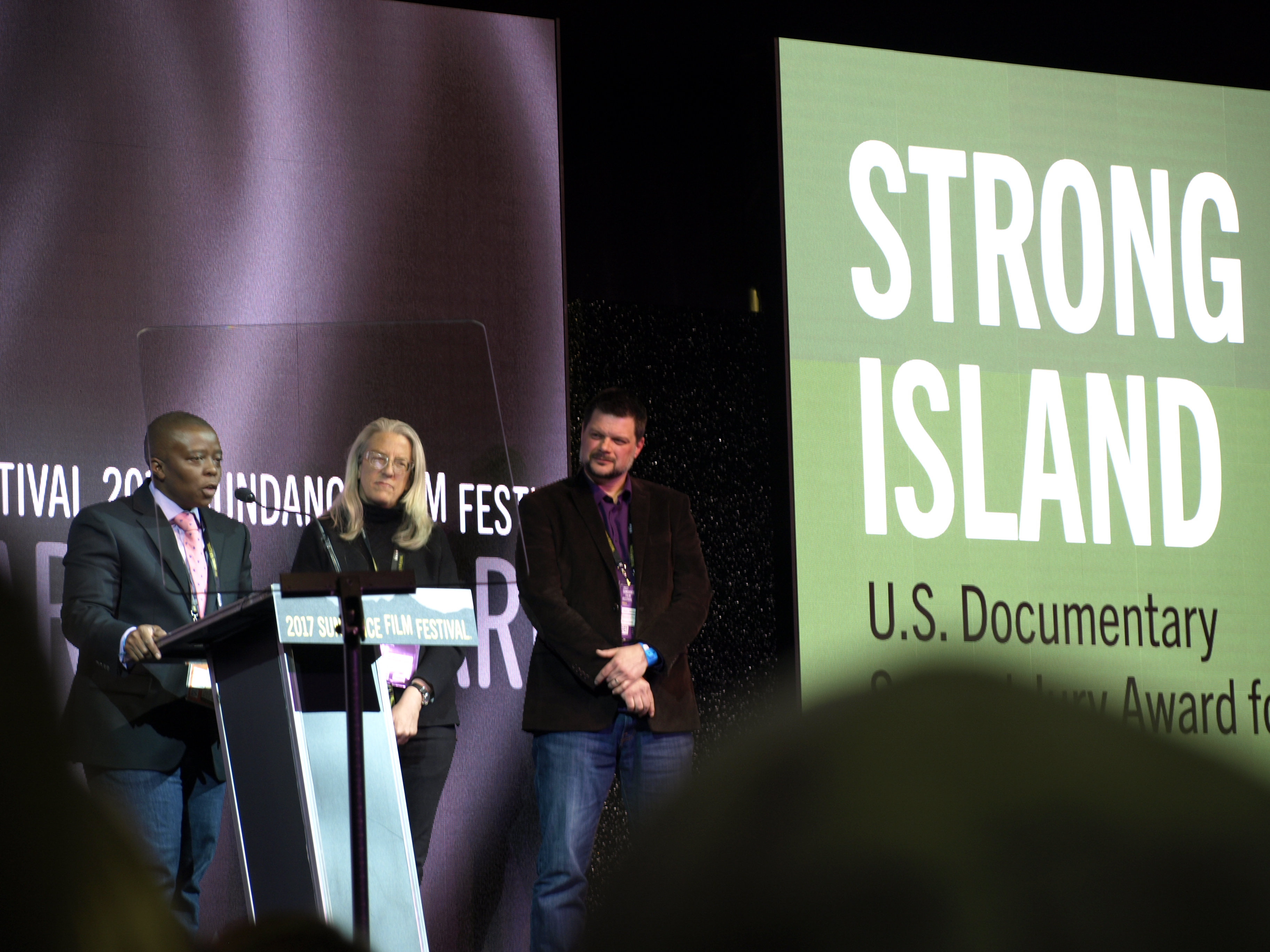 A U.S. Documentary Special Jury Award for Storytelling was presented to Yance Ford’s “Strong Island” at Sundance 2017, Park City UT